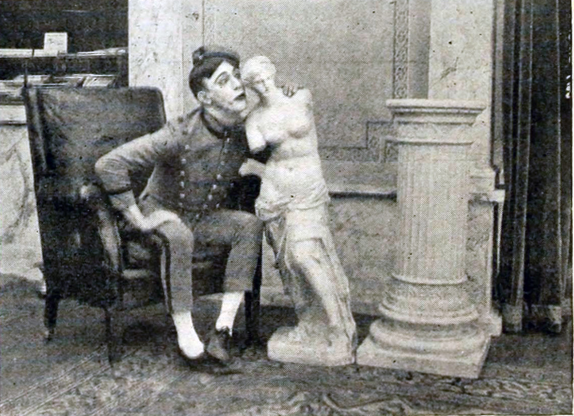 Illustration of an article in The Moving Picture World